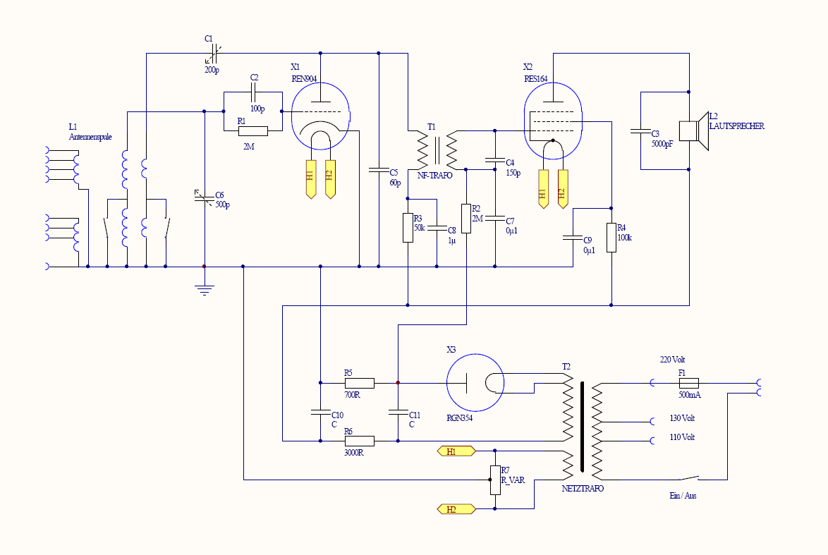 Schematics of Volksempfänger VE301W